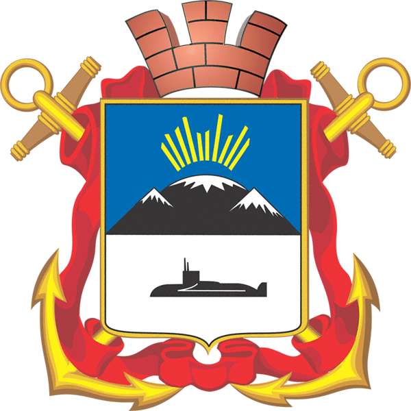 Coat of arms of Gadzhievo, Russia